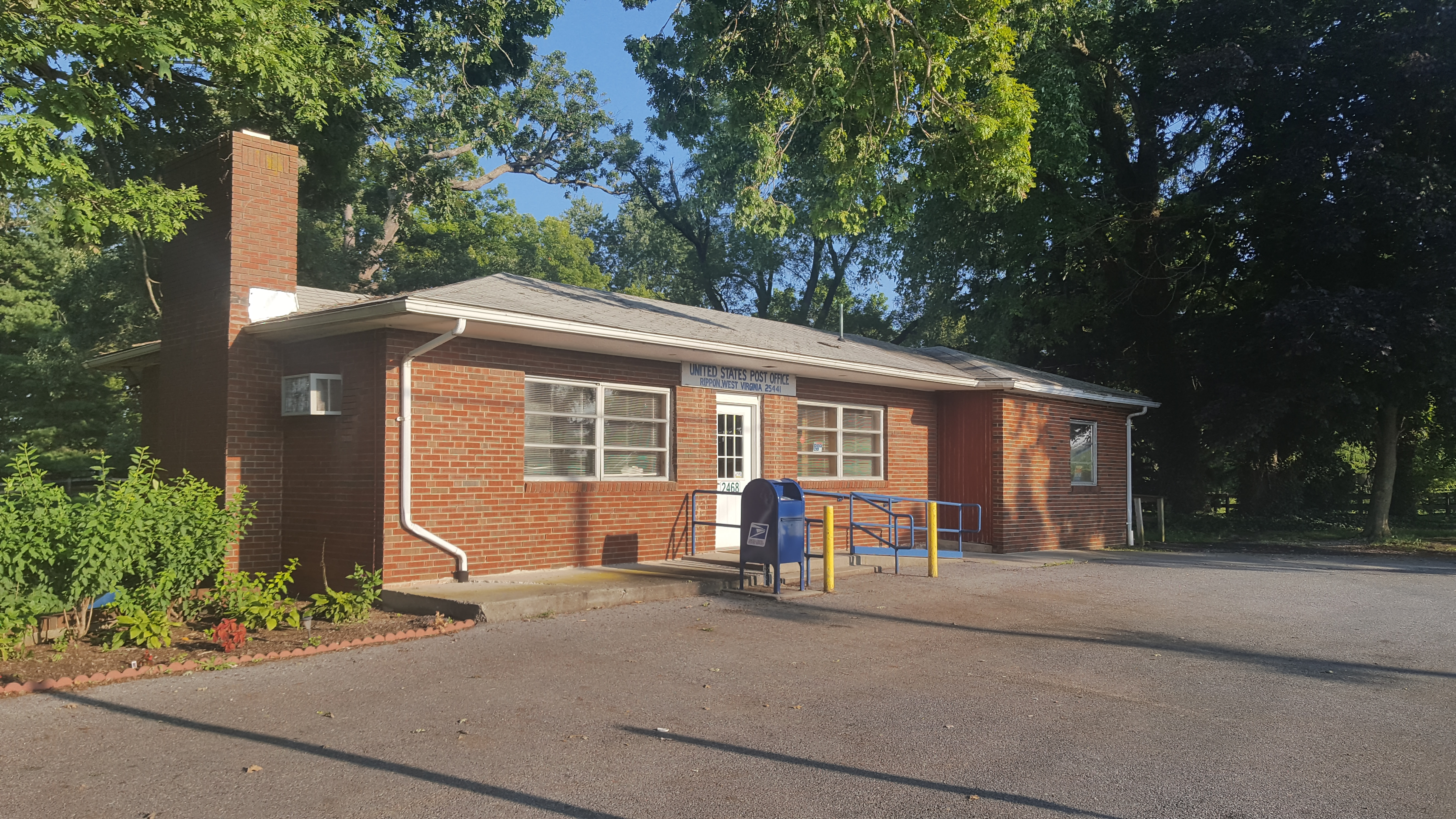 Post Office in Rippon, West Virginia. (2468 Berryville Pike Ste 100, Rippon, WV 25441) Picture taken by Thomas M. Rösner (13-Aug-2017)